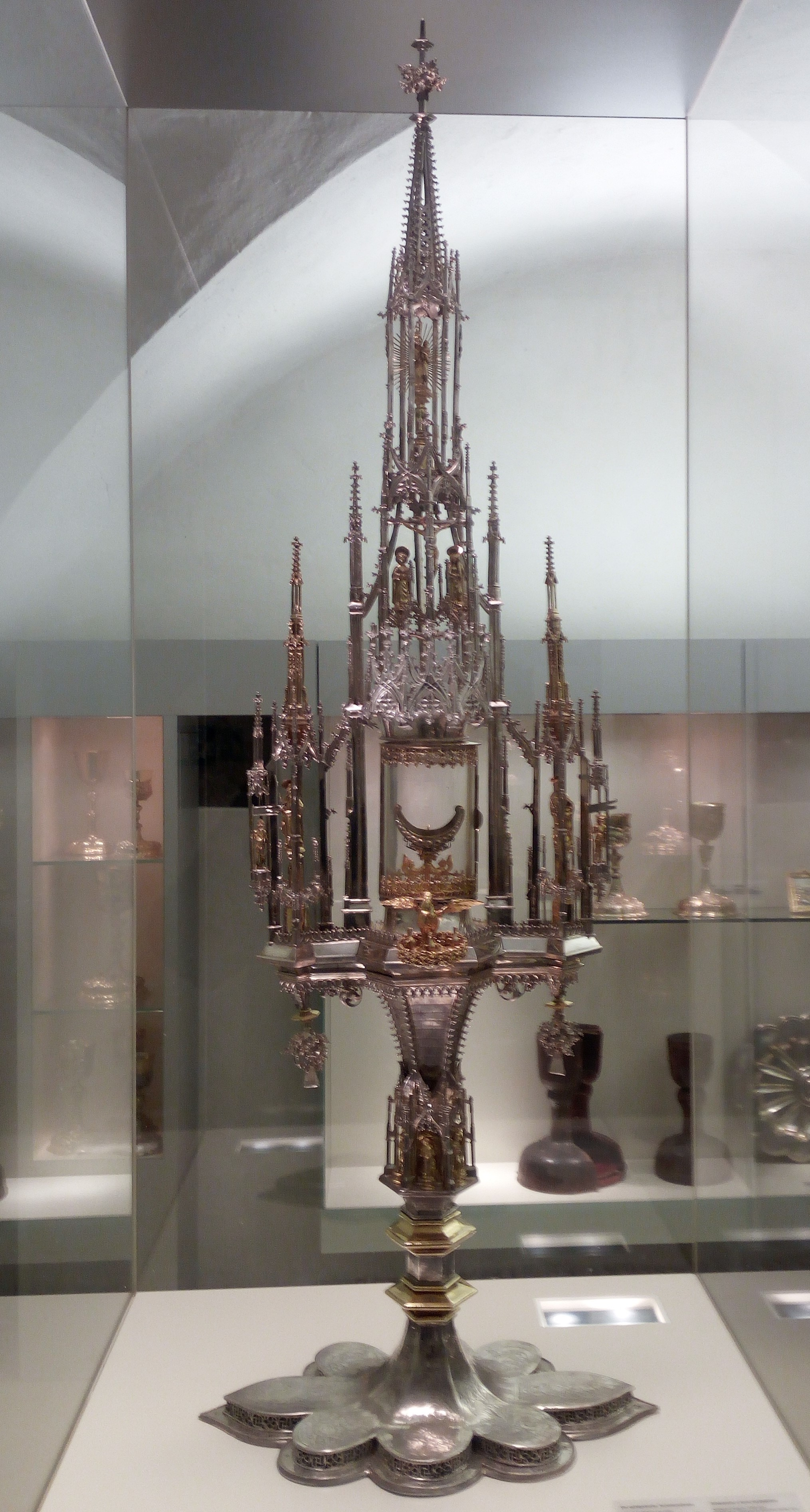 Silber-gilded monstrance preserved within the Domschatzmuseum Bozen (South Tyrol, Italy) dating back to the late 15th century (ca 1490)